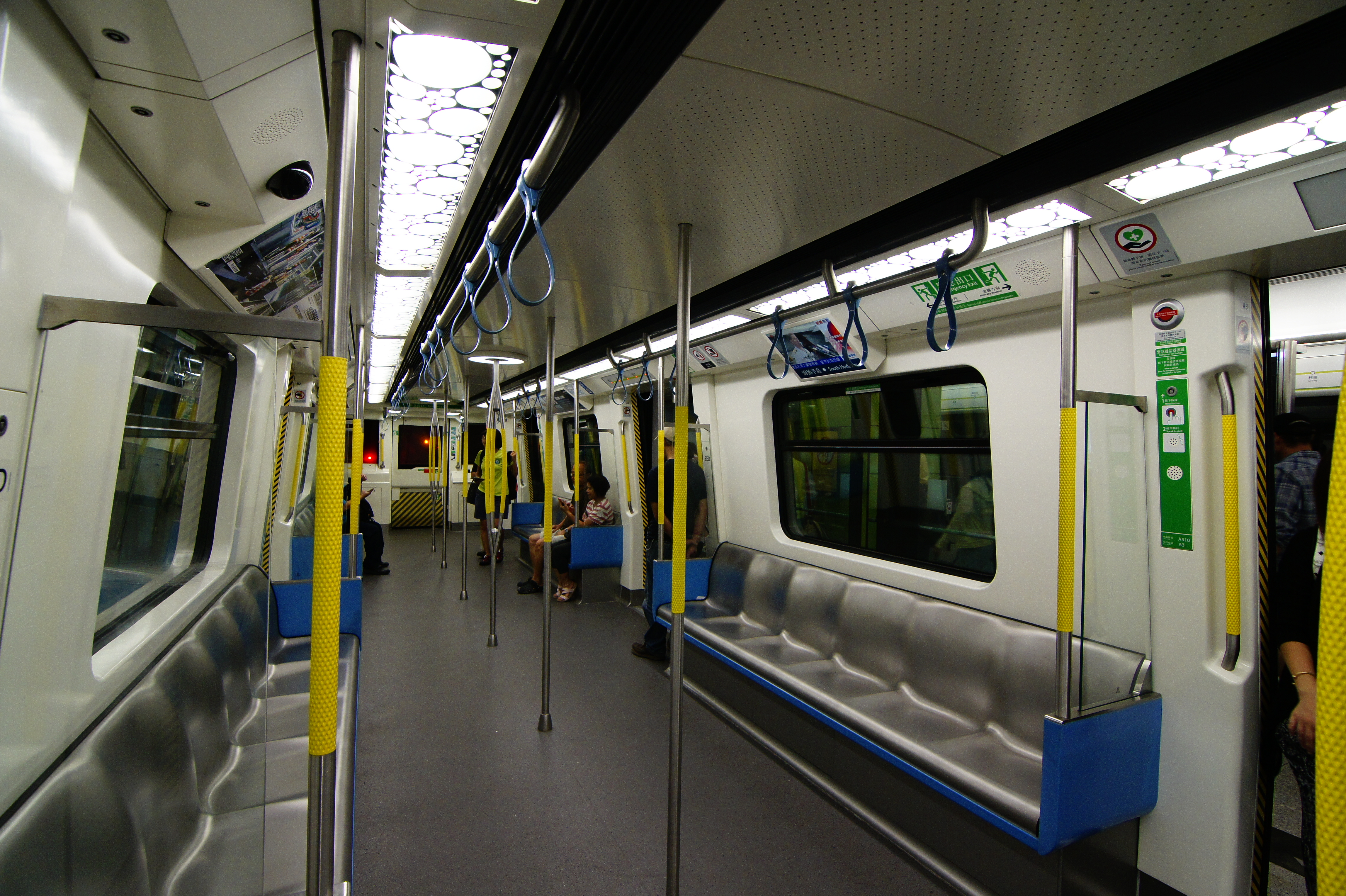 MTR South Island Line S-Train train compartment